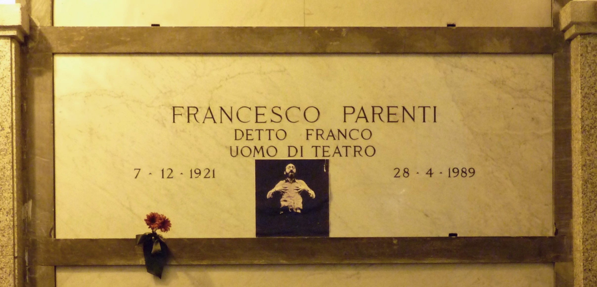 The grave of Italian actor Franco Parenti at the Monumental Cemetery of Milan, Italy.